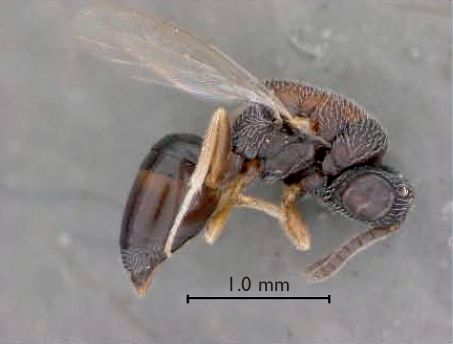 Aximopsis masneri, lateral view of female.